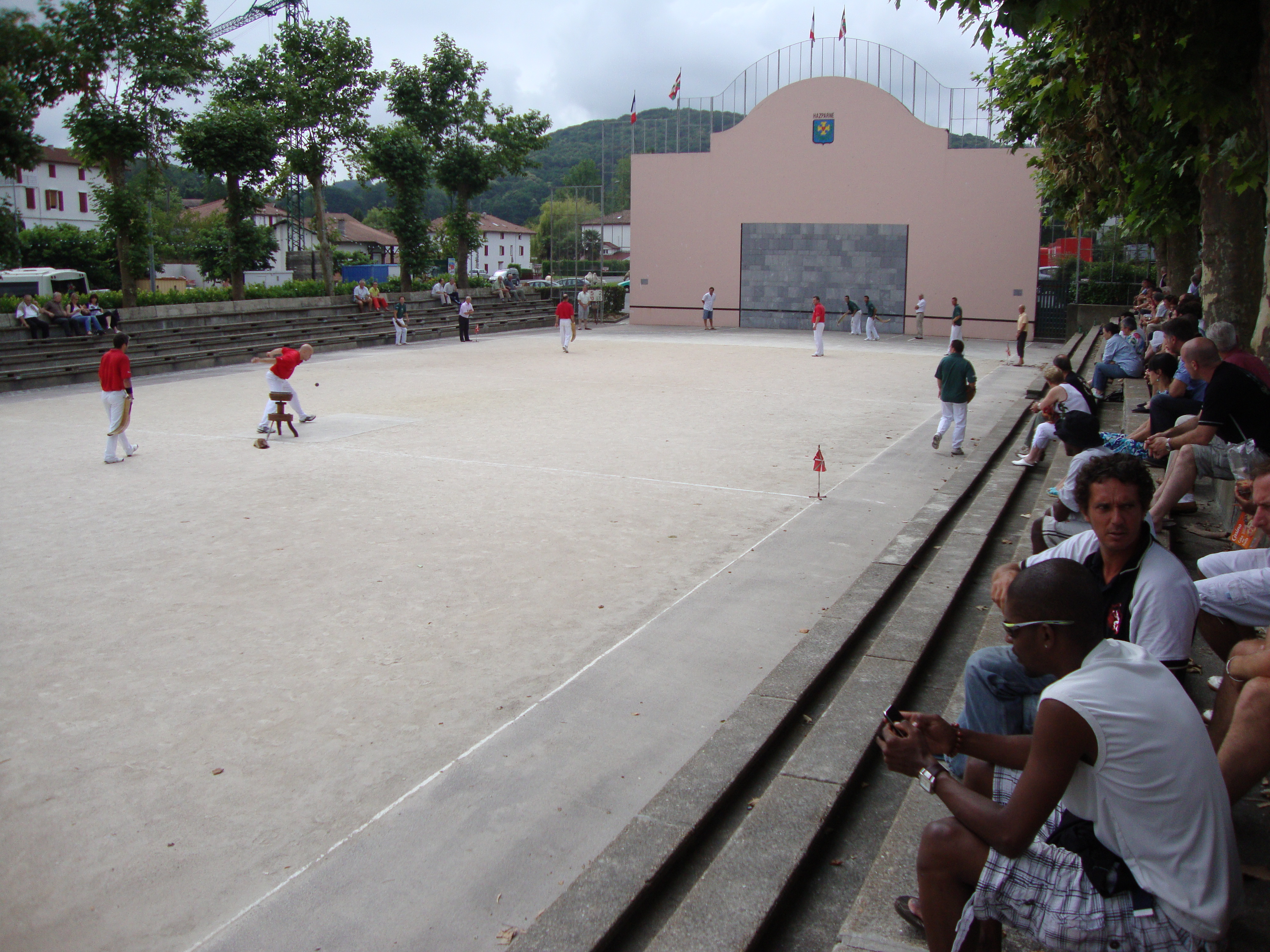 Hasparren (Pyr-Atl, Fr) le fronton, match de rebot Hasparren (rouge)-Anglet (vert), le 4 juillet 2010, championnat de la ligue.JPG